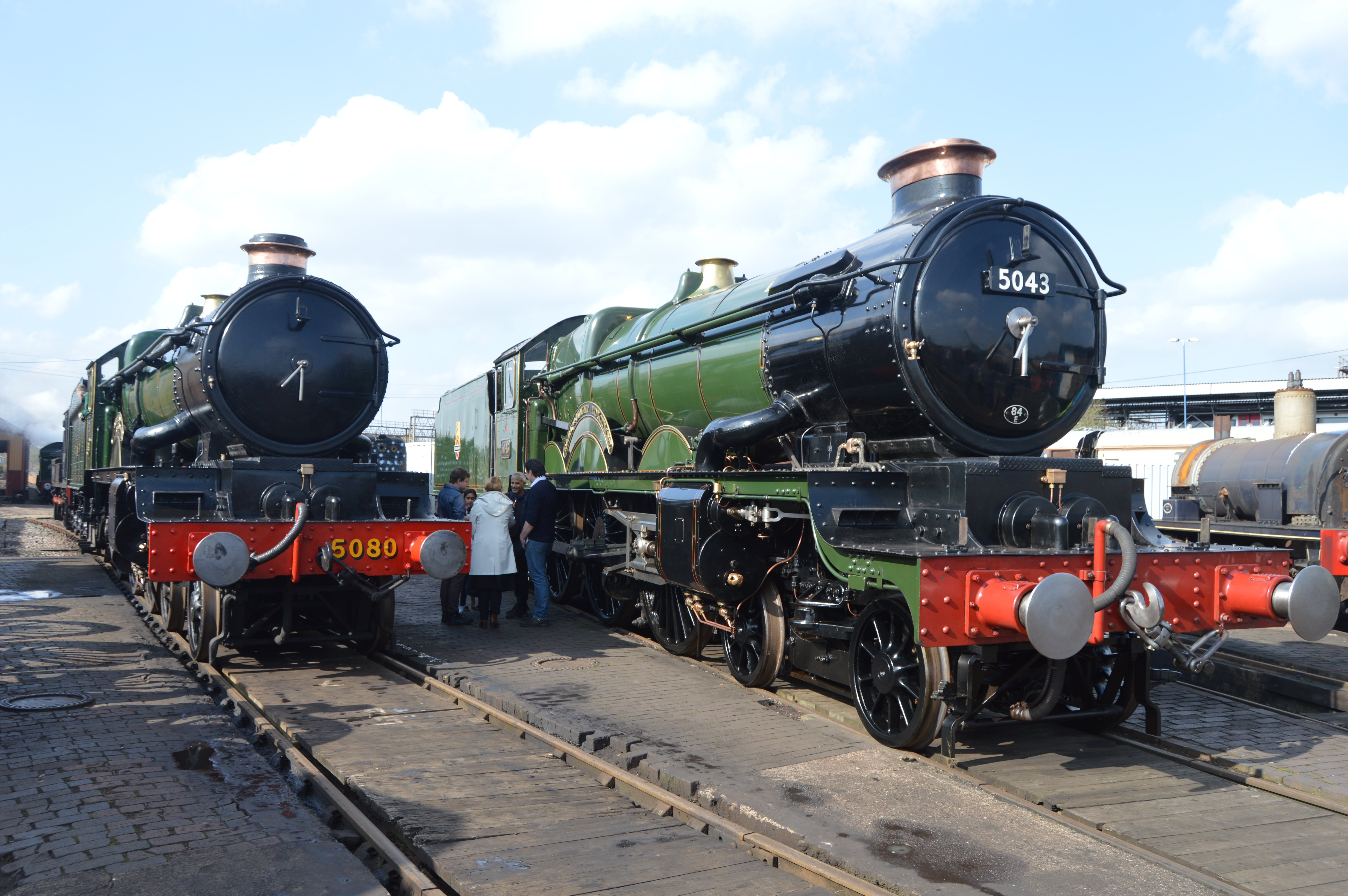 2 GWR Castle's parked up around the turntable at Tyseley Locomotive Works, the castle on the left is 5080 Defiant (originaly named Ogmore Castle) & the castle on the right is 5043 Earl of Mount Edgcumbe (originaly named Barbury Castle). Both engines were static exhibits during the Clun Castle steaming event in April 2018.